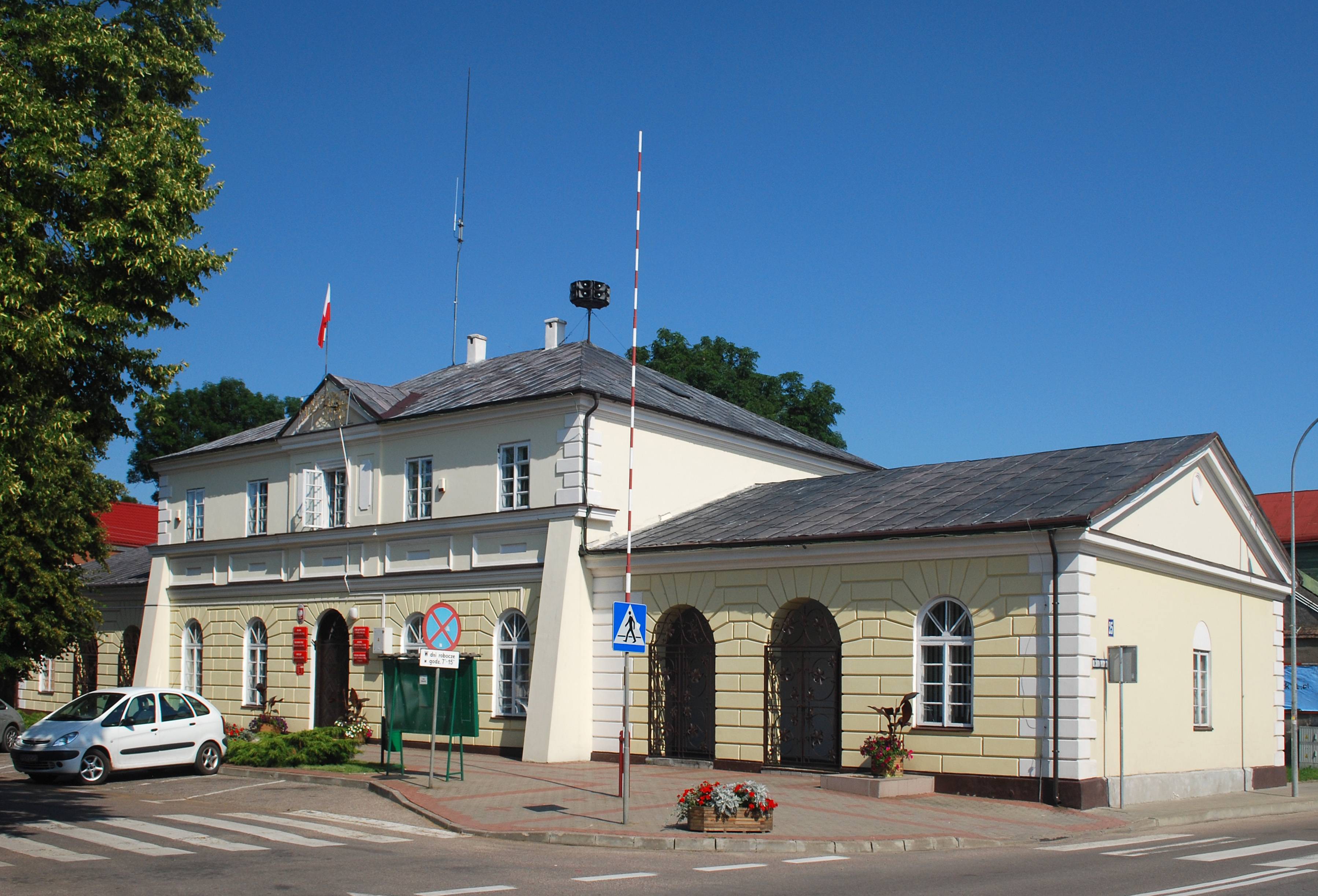 This photo from Podlaskie Voievodeship was taken during Polish Wikiexpedition 2009 set up by Wikimedia Polska Association. The making of this document was supported by Wikimedia Polska.